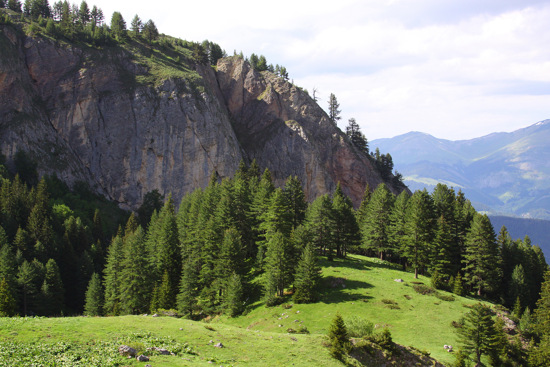 The nature under Drelaj lake of Liqenat, Rugova gorge